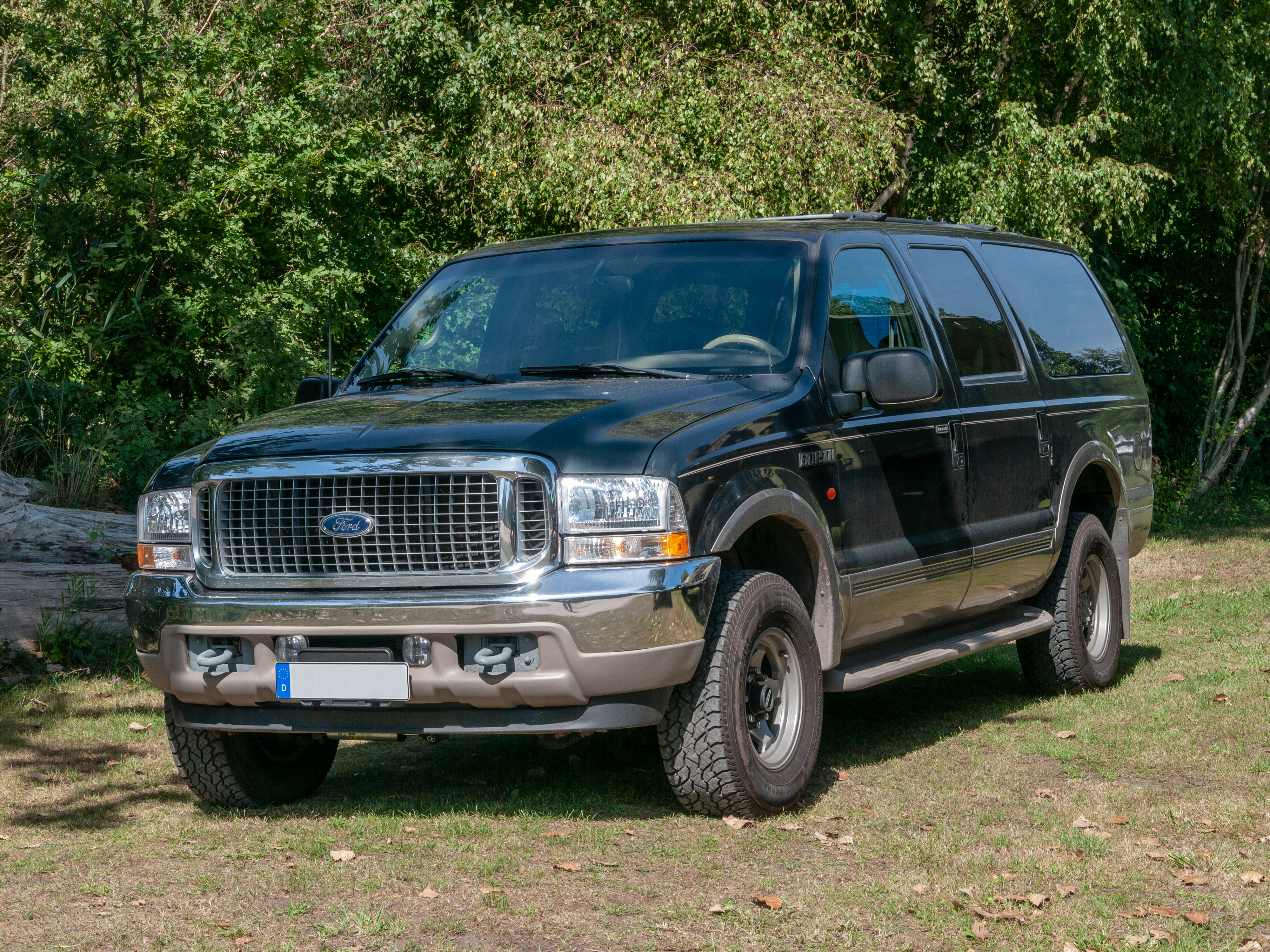 Ford Excursion at 12. Internationales Maritimes-Fahrzeugtreffen